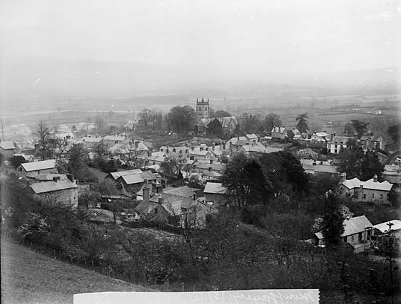 1 negative : glass, dry plate, b&w ; 16.5 x 21.5 cm.